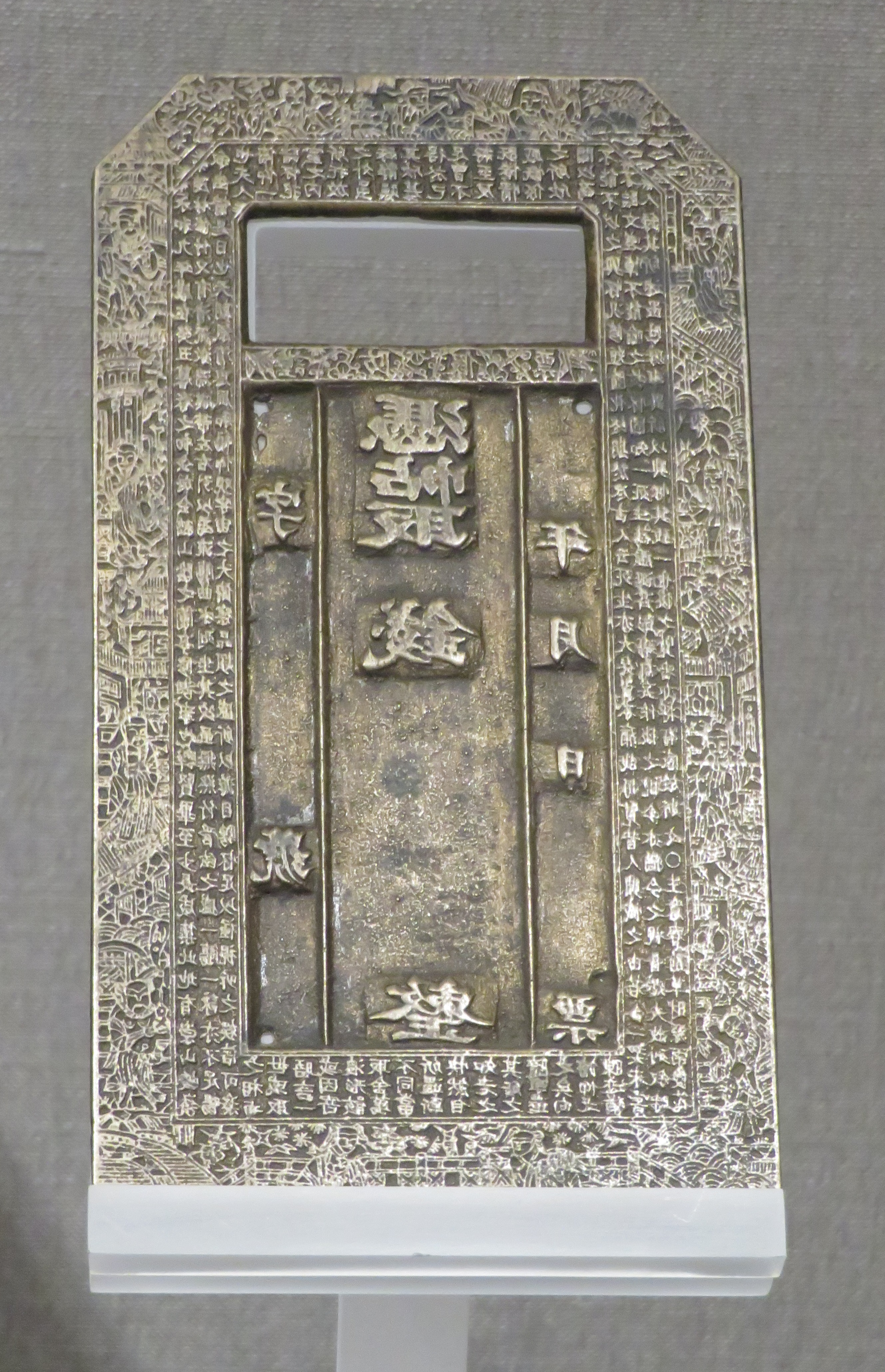 Bronze printing plate for a banknote. Qing dynasty.